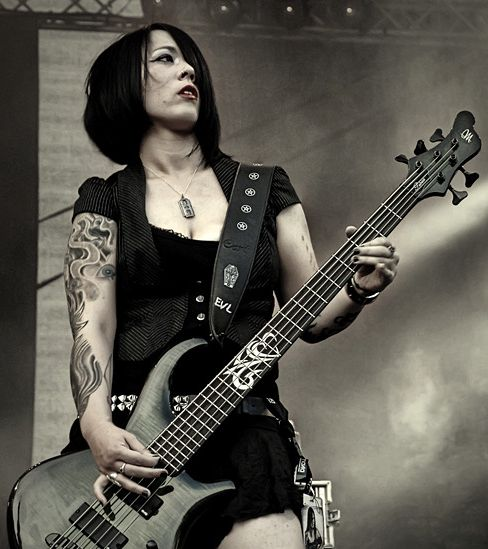 Lena Abé Female bass guitarist of the band My Dying Bride, MDB.